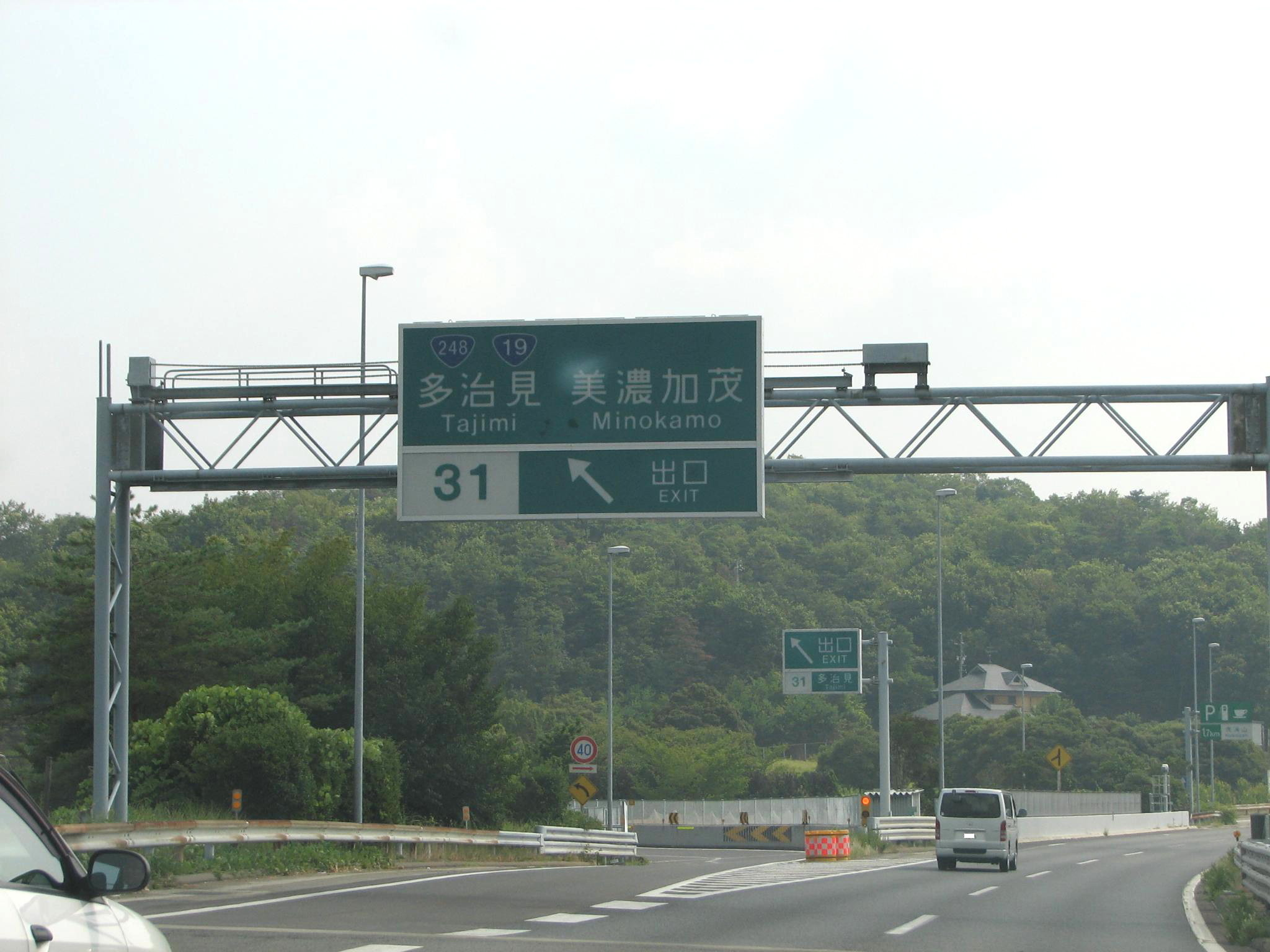 Tajimi IC (For Okaya)